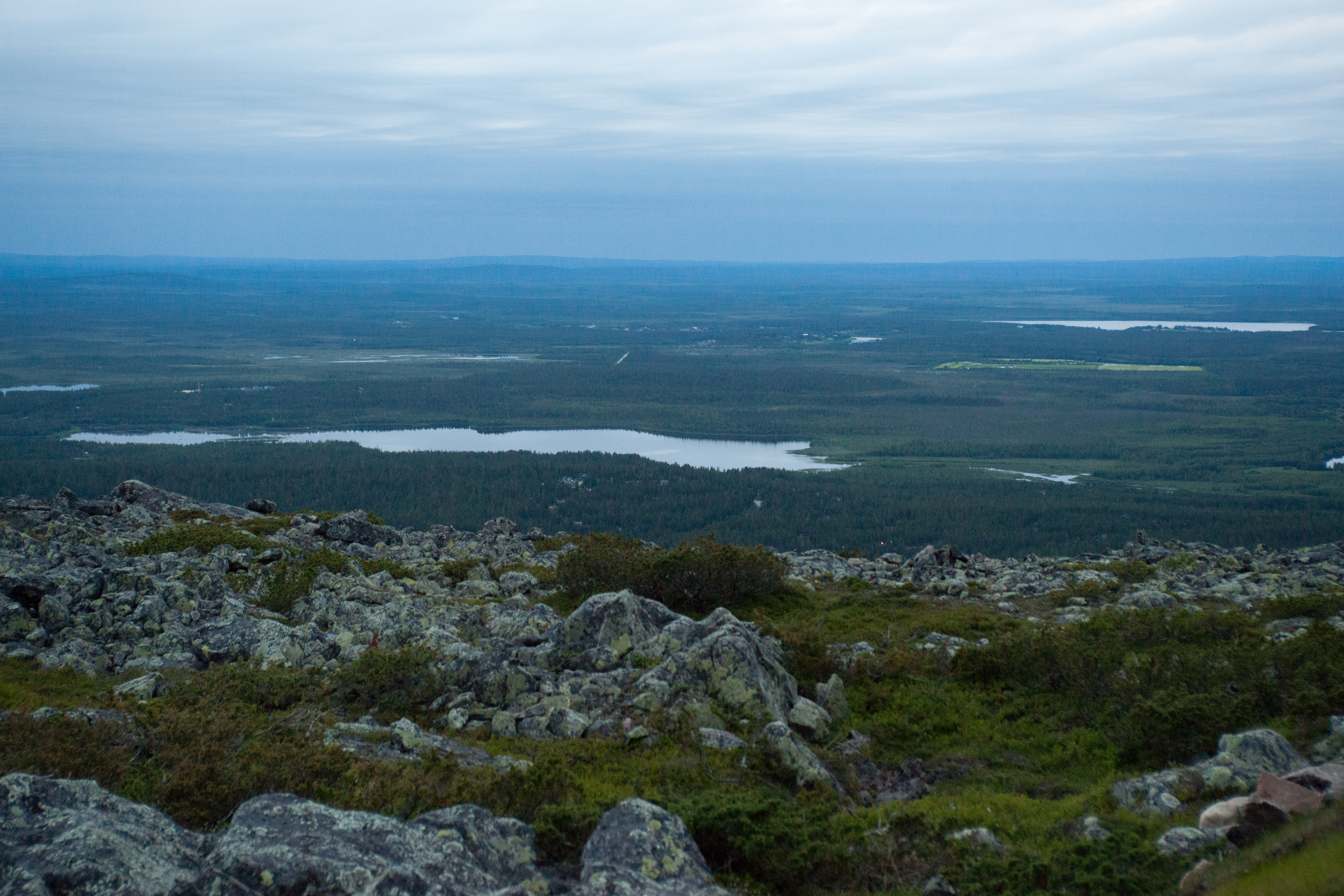 View from Levi ski resort, Sirkka, Kittilä, Finland.